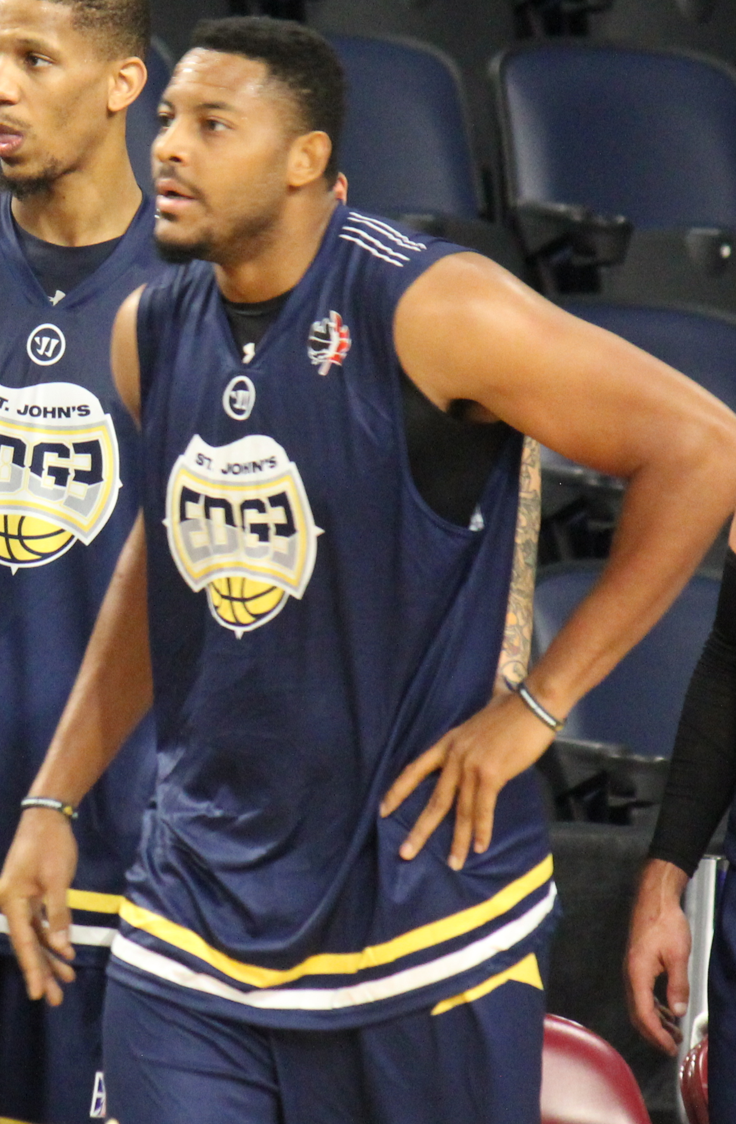 halifax